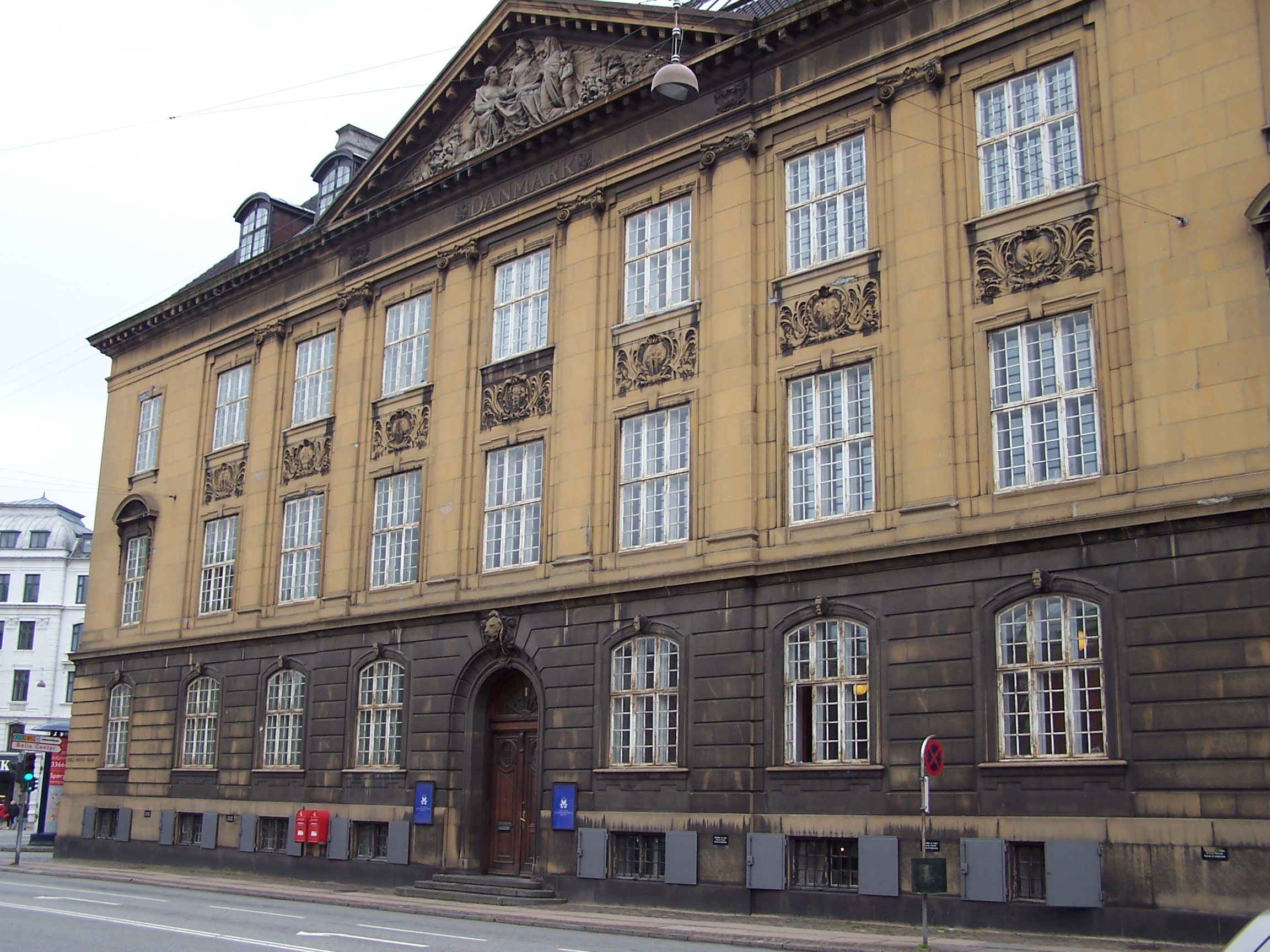 The Royal Danish Academy of Music, Copenhagen (until 2008